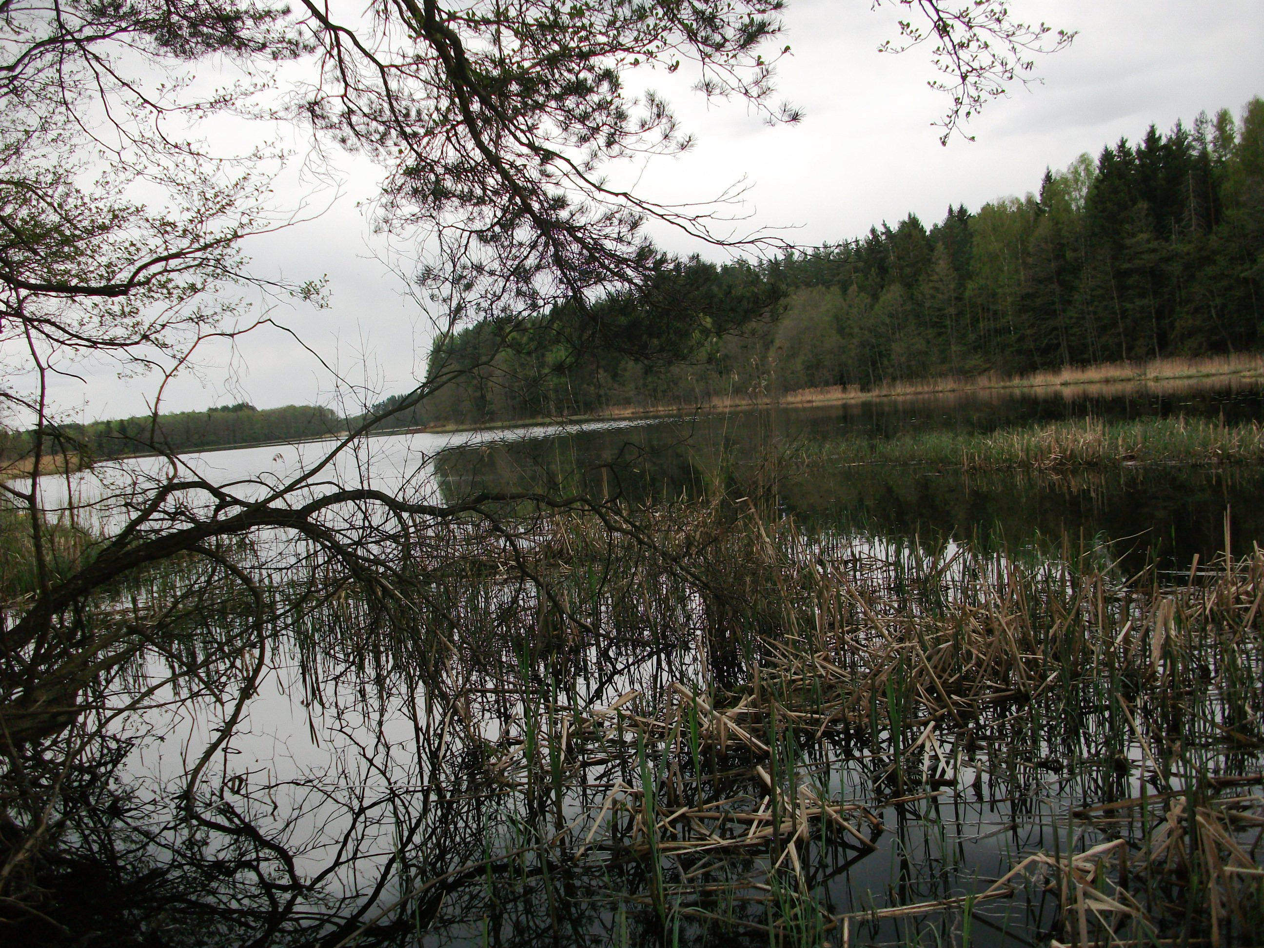 Belaye Lake, Astraviec District, Belarus